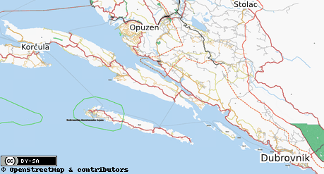 Map of the Neum strip, Pelješac peninsula and adjacent territories